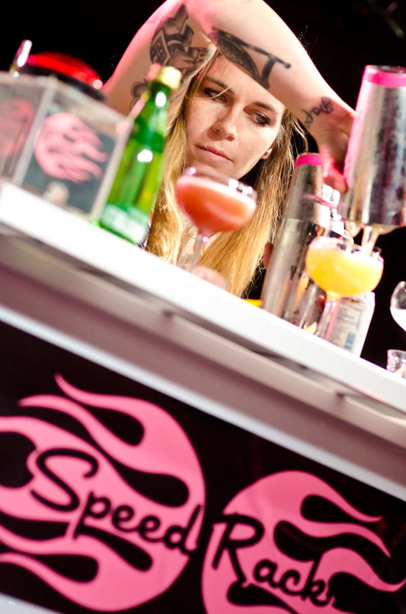 Speed Rack is a competition created by and for female bartenders.